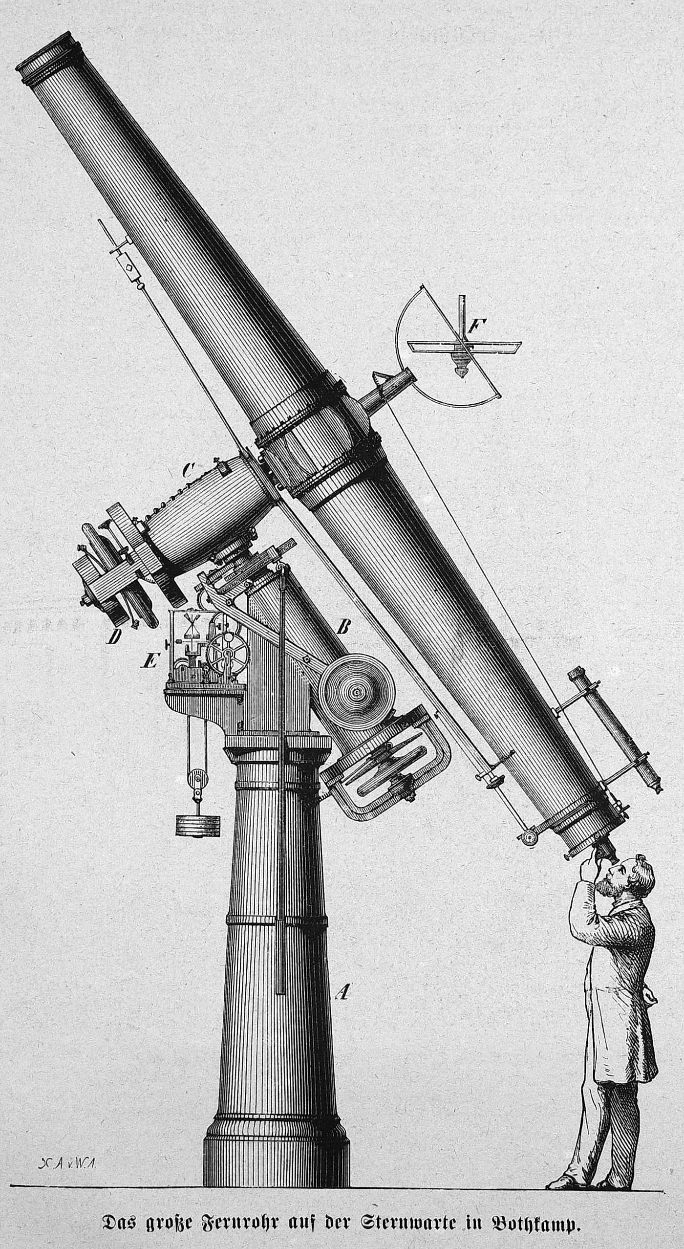 caption: "Das große Fernrohr auf der Sternwarte in Bothkamp."